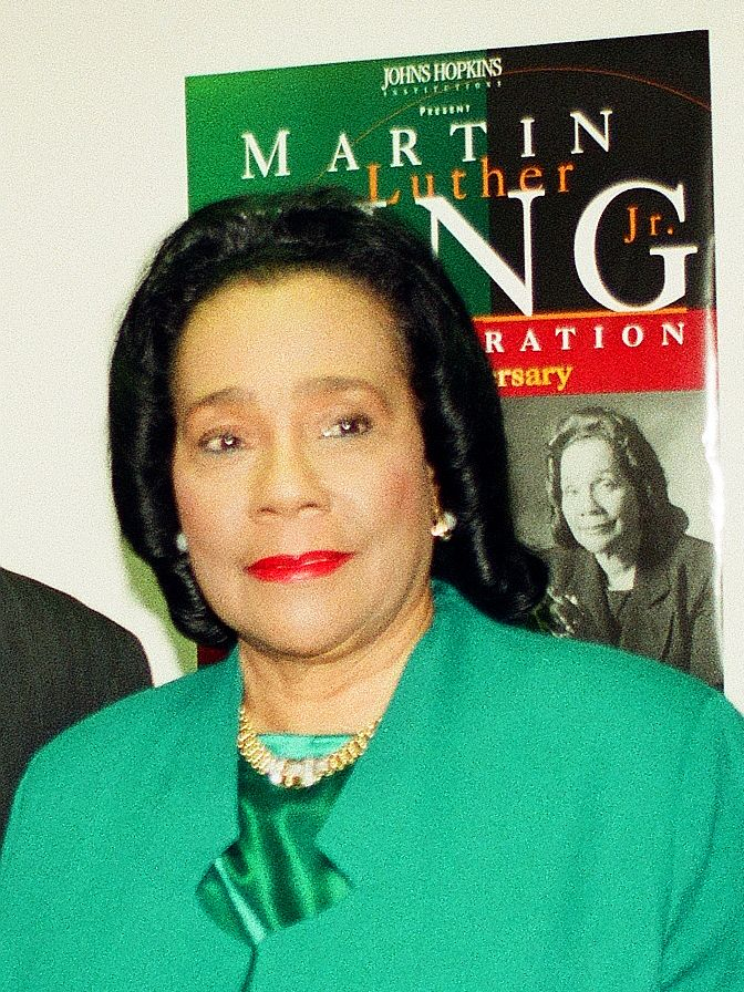 From Baltimore M.D. 2002